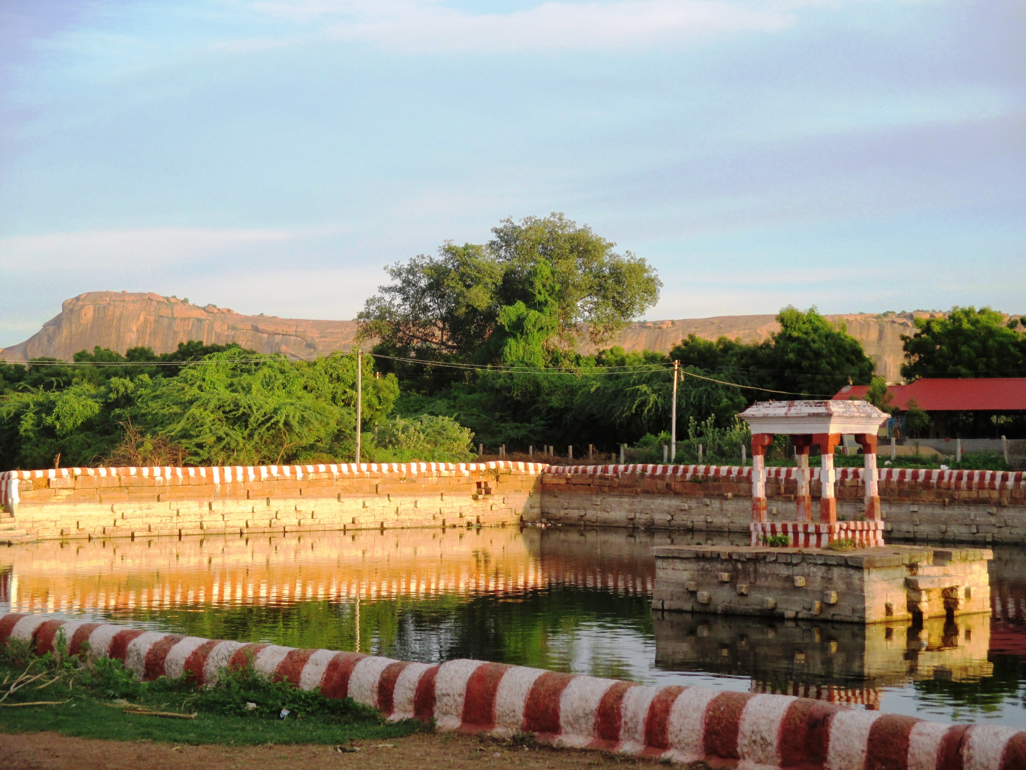 Kalamegaperumal Temple,Tirumohur